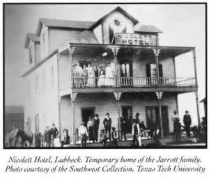 Nicolett Hotel of Lubbock, TX, opened 1891; razed c. 1945; photo is pre-1923; photo is on Internet at